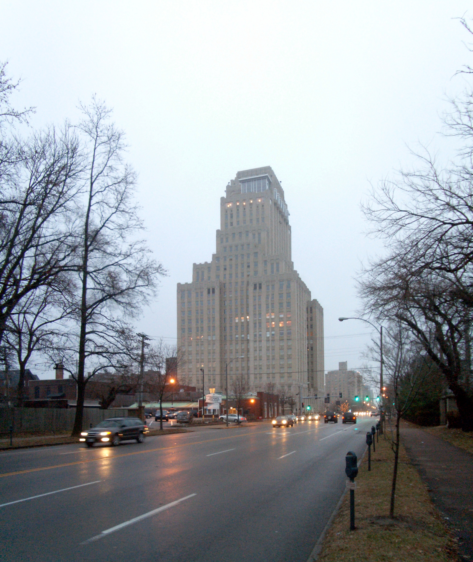 Park Plaza Apartments in Saint Louis, Missouri